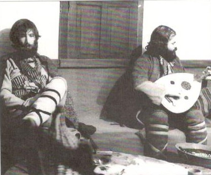 Scene from the Macedonian movie "Neli ti rekov" (1976)